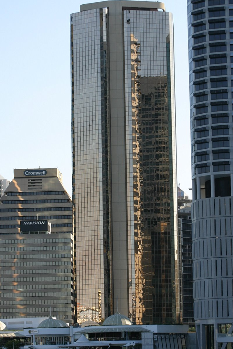 AMP Place in Brisbane taken from West End